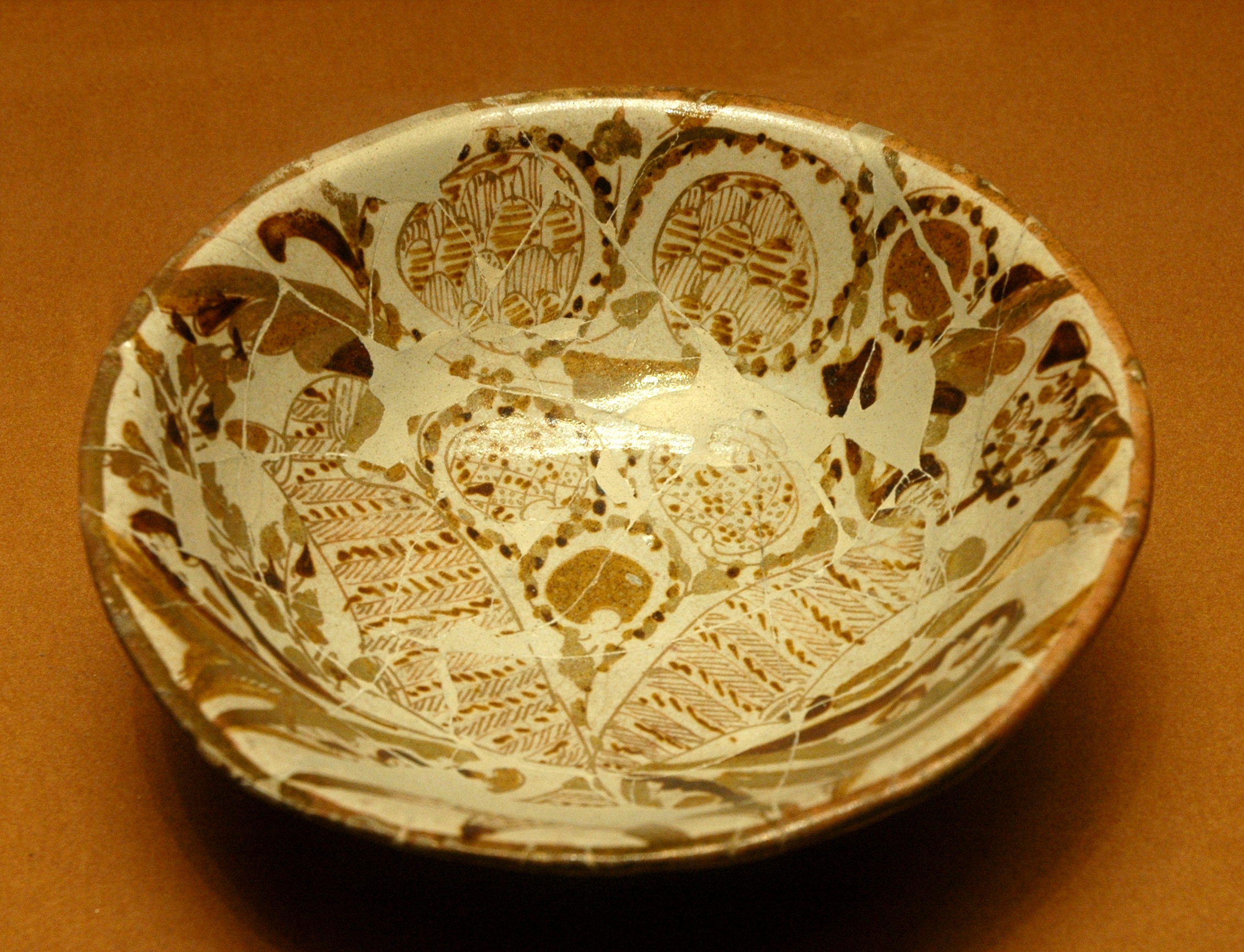 Cup with a bunch of leaves.